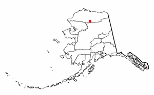 Adapted from Wikipedia's AK borough maps by Seth Ilys.